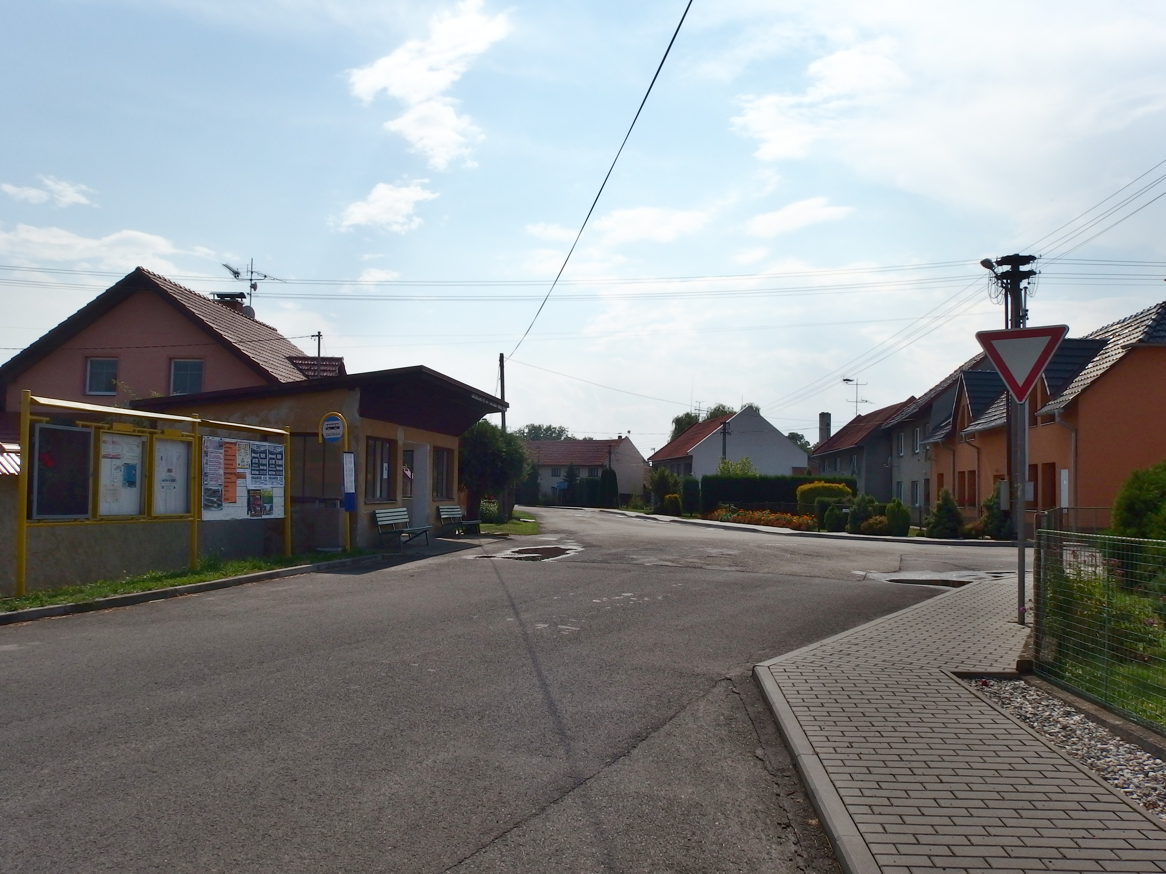 Dolní Nětčice, Přerov District, Czech Republic.